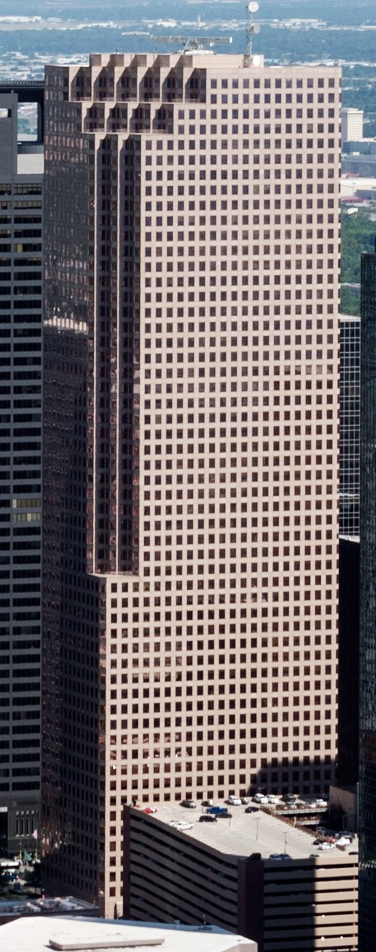 Aerial view of the Enterprise Plaza, Houston, Texas, in 2014.